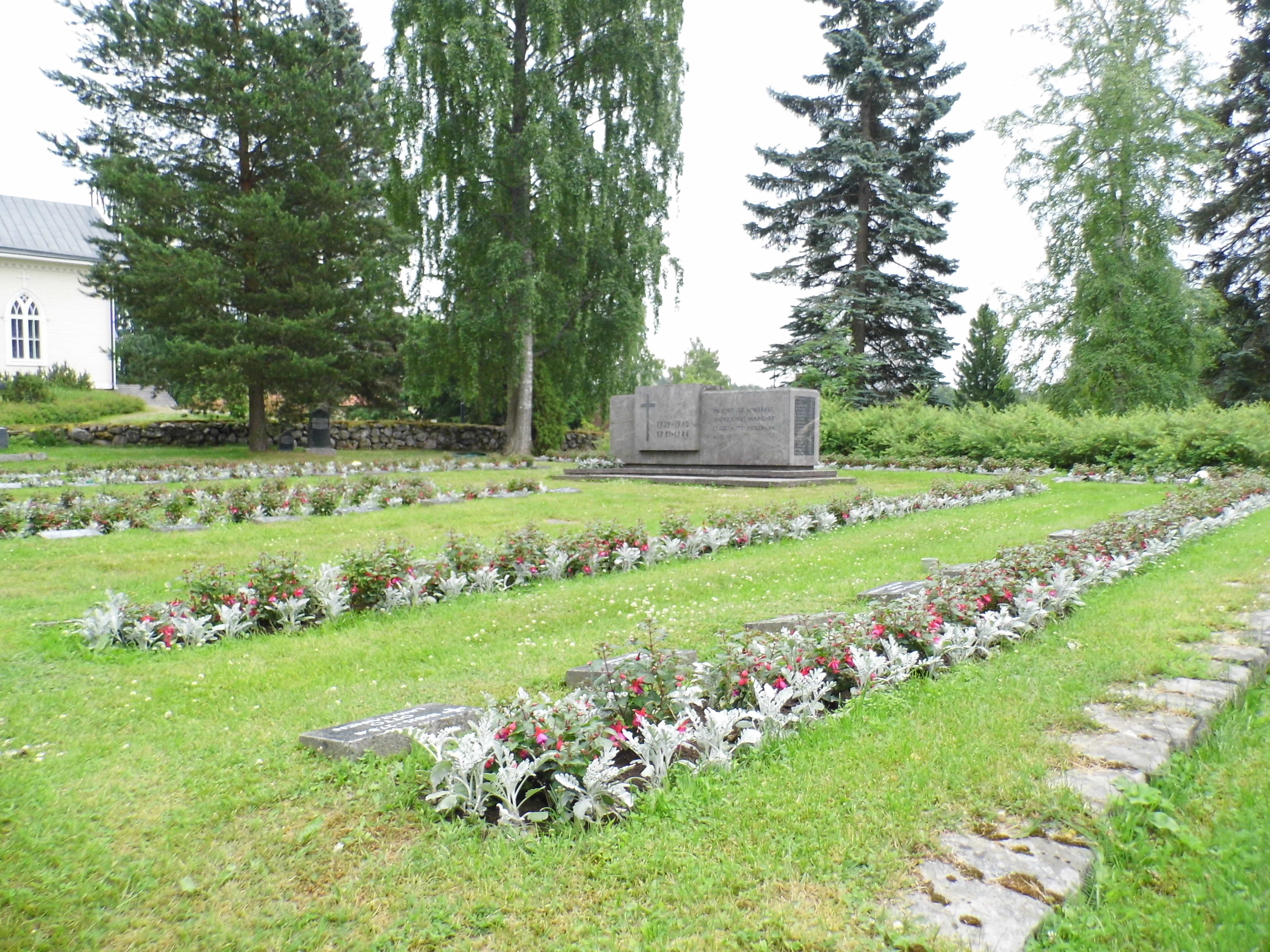 Military cemetary at Askola church, Finland